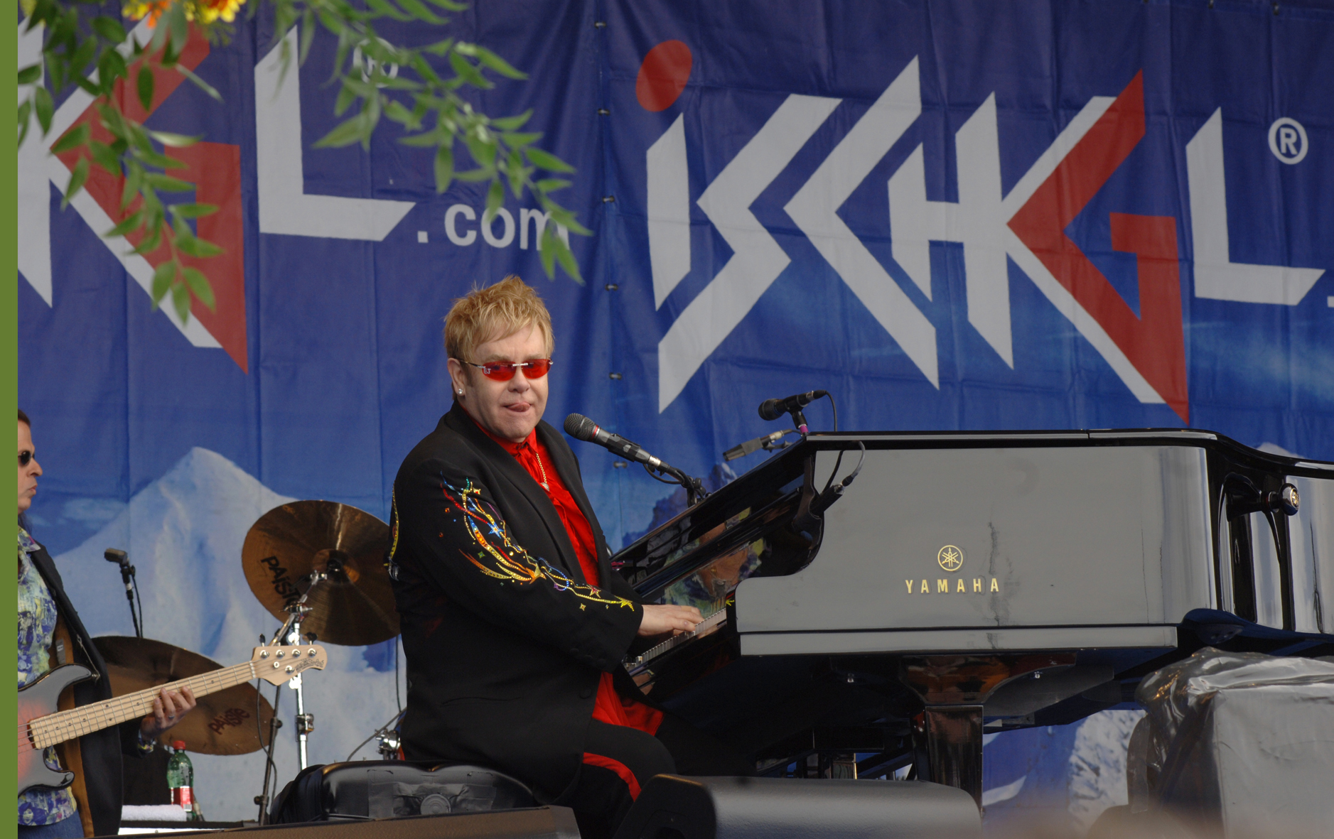 Elton John live in Ishcgl in May 3rd 2008